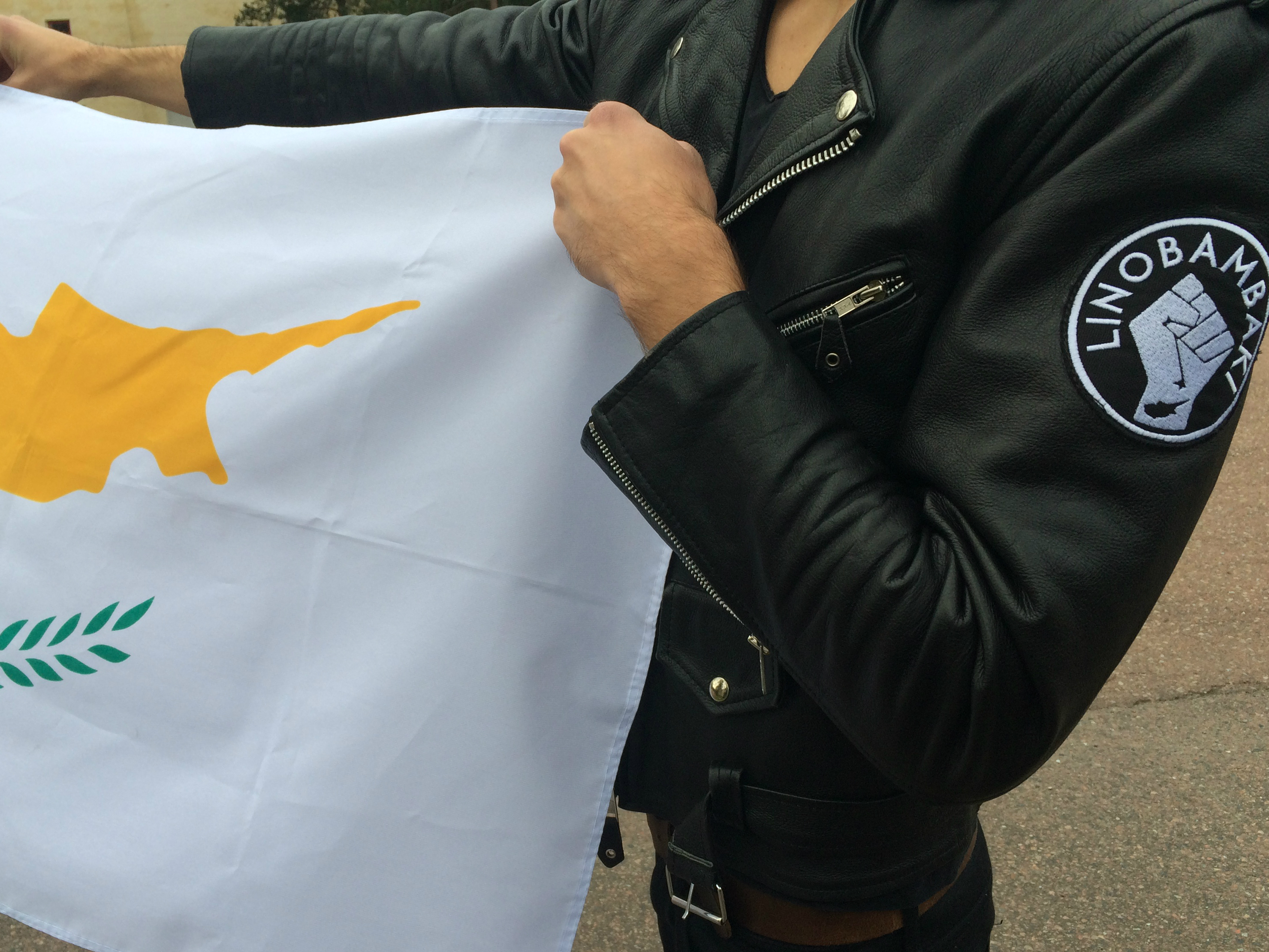 Photo from 2011 Turkish Cypriot protests